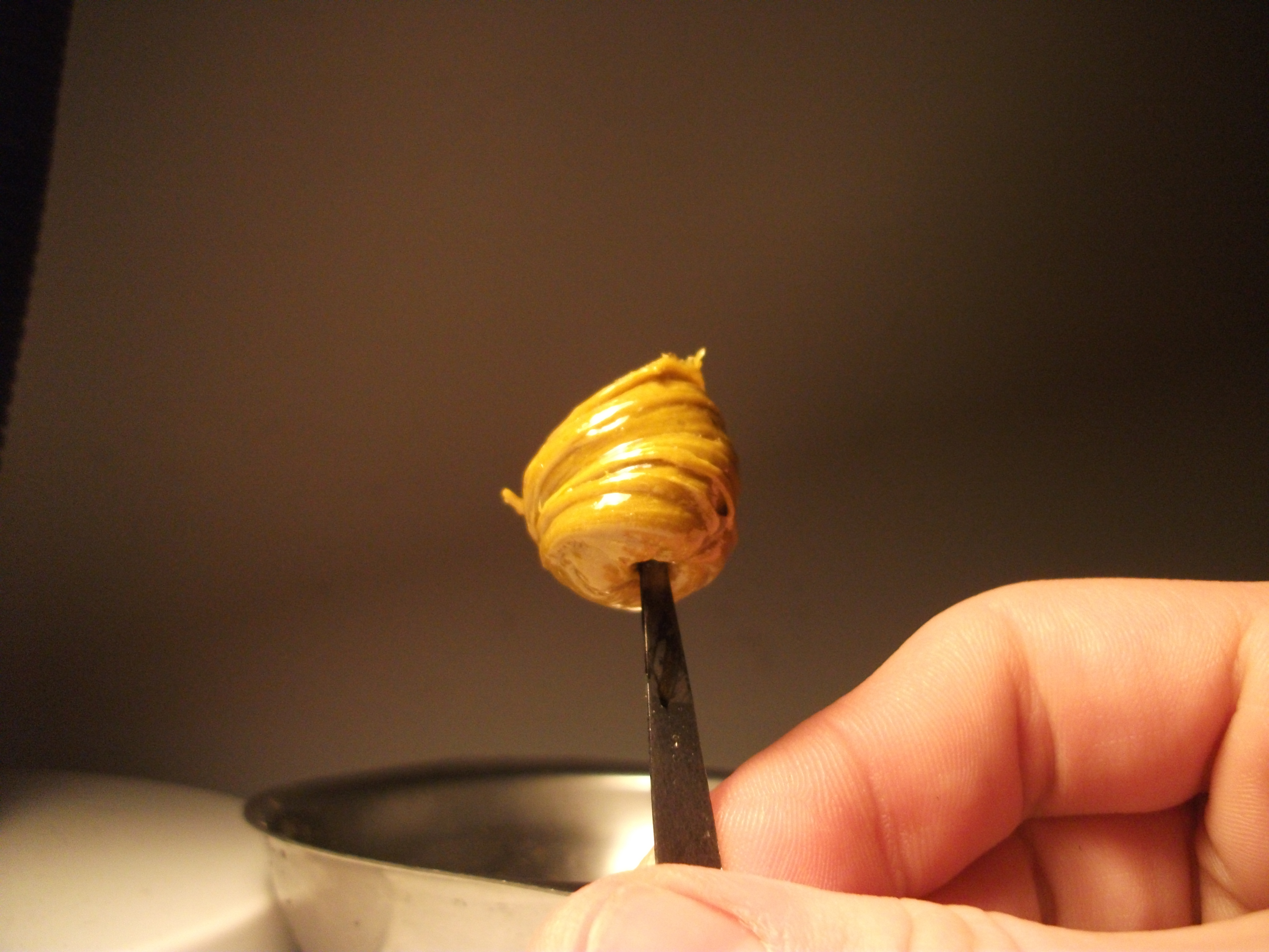 This BHO was made with the strain freezeland's exterior trimmings